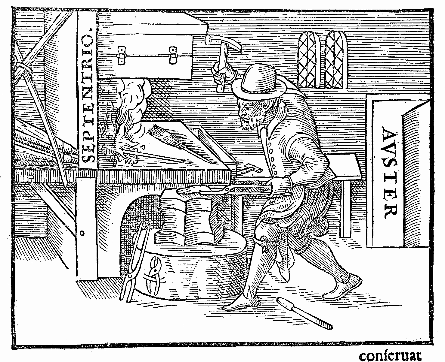 An illustration showing one of the first methods of magnetizing iron, from one of the earliest scientific works on magnetism: Die Magnete written by William Gilbert in 1600. A blacksmith heats a piece of iron red hot, then holds it with its long axis in a north-south direction and hammers it as it cools. The magnetic field of the Earth would align the magnetic domains of the iron as it cooled through its Curie temperature, leaving the iron a weak magnet. Rare Books Keywords: Magnetism